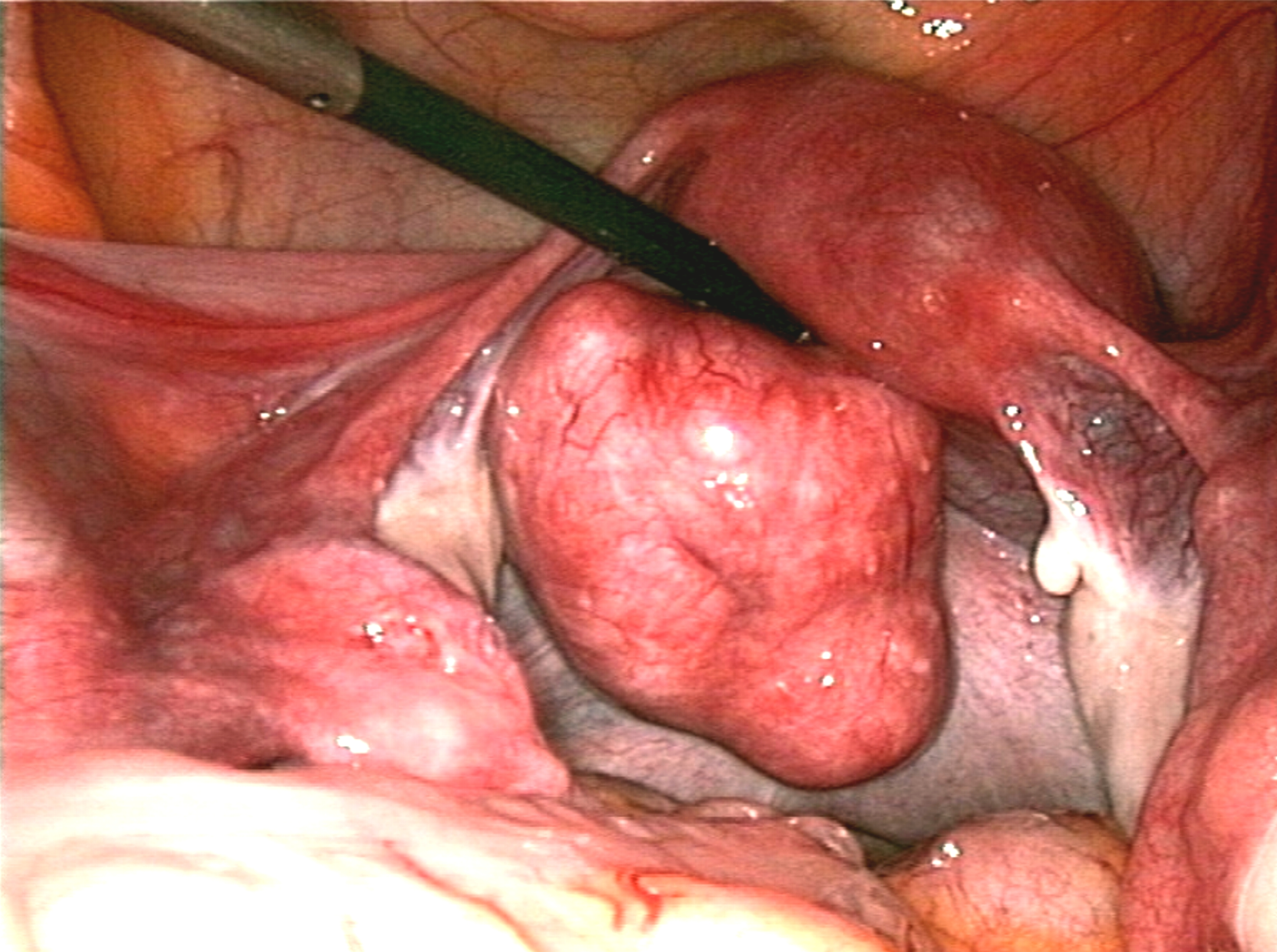 large subserosal leimyoma of the uterus